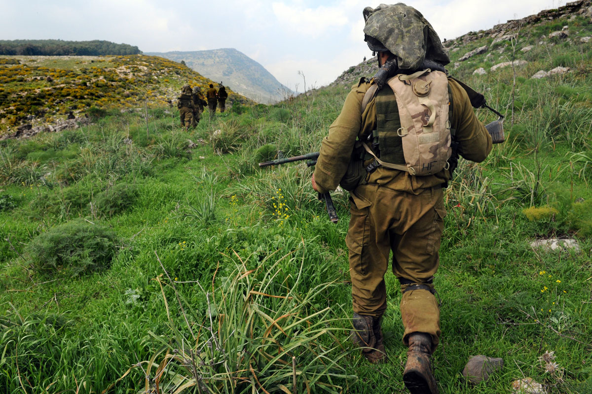 February 27, 2012 Last month, soldiers from the Elite Egot Unit took on their final test- after more than a year of training, they conducted a week of exercise in which they put all of their studying into action. During this week, the soldiers demonstrated their abilities in camouflage, fighting in urban warfare style and much more. The Egoz Reconnaissance Unit is an elite special forces unit of the IDF that specializes in guerrilla warfare. The Egoz Battalion is part of the Northern Command's Golani Brigade. The Israel Defense Forces Facebook The Israel Defense Forces blog Follow us on Twitter